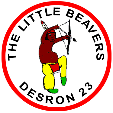 Official logo of the U.S. Navy Destroyer Squadron 23, "The Little Beavers".